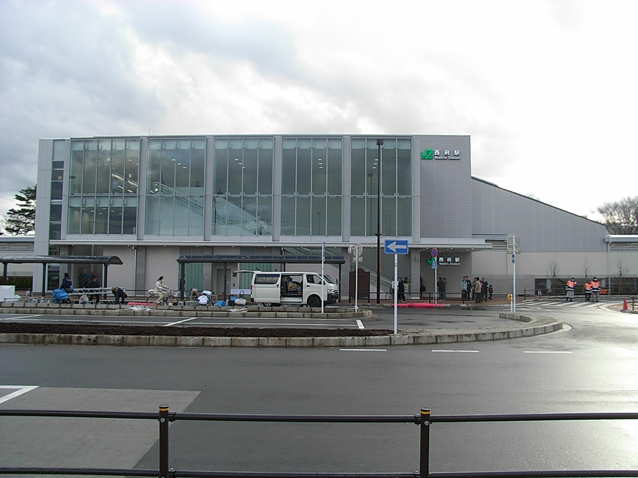 Nishifu Station (North Entrance) on JR Nambu Line. (40,Honshuku-cho 1-chome,Fuchu-shi,Tokyo-to,JAPAN)